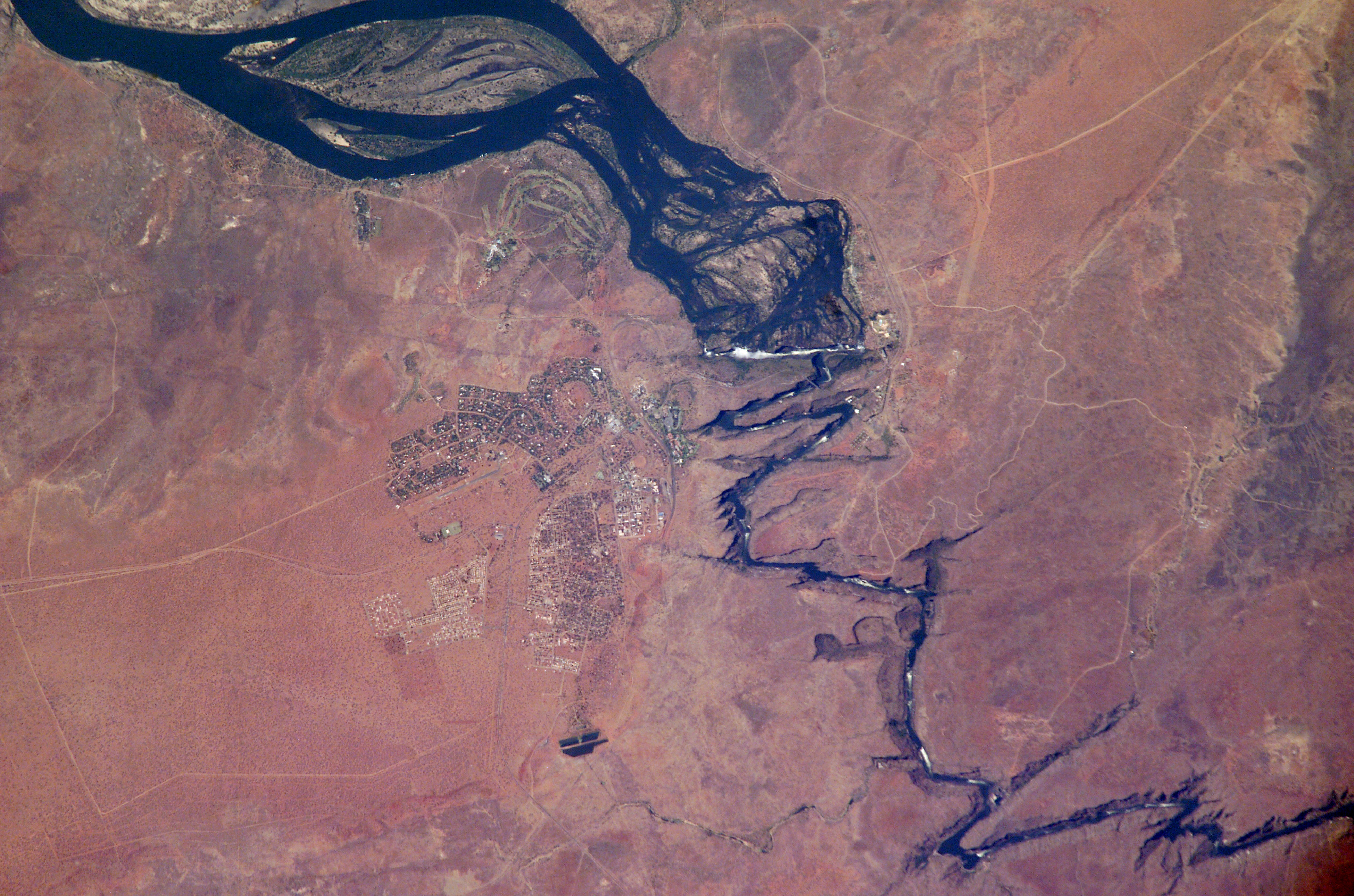 Victoria Falls seen from the International Space Station. Original image courtesy of the Image Analysis Laboratory, NASA Johnson Space Center , image ID: ISS007-E-14361. (Moved from